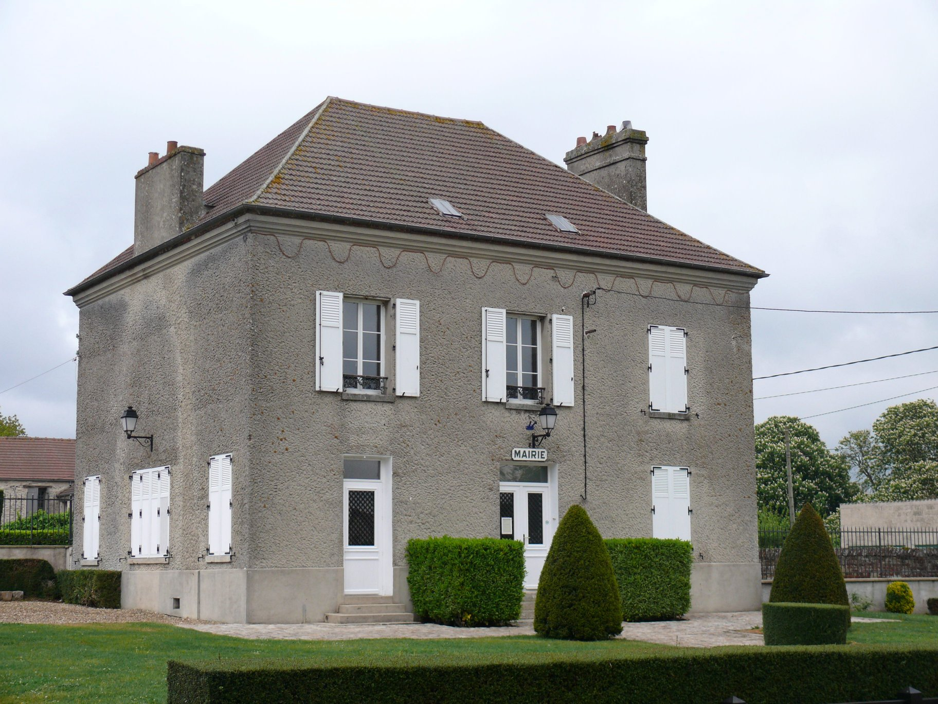 The city hall of Chèvreville (Oise, Picardie, France).